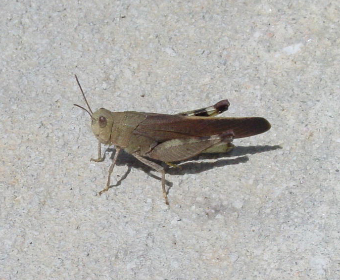 Arphia granulata, Lake Louisa, Florida, USA